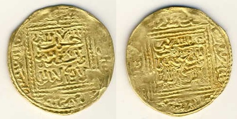 Golden coin of a marinid sultanAbu Said Uthman III